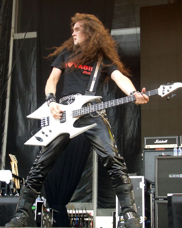 Frédéric Leclercq from DragonForce at Ozzfest 2006.